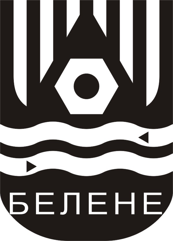 Belene Coat Of Arms